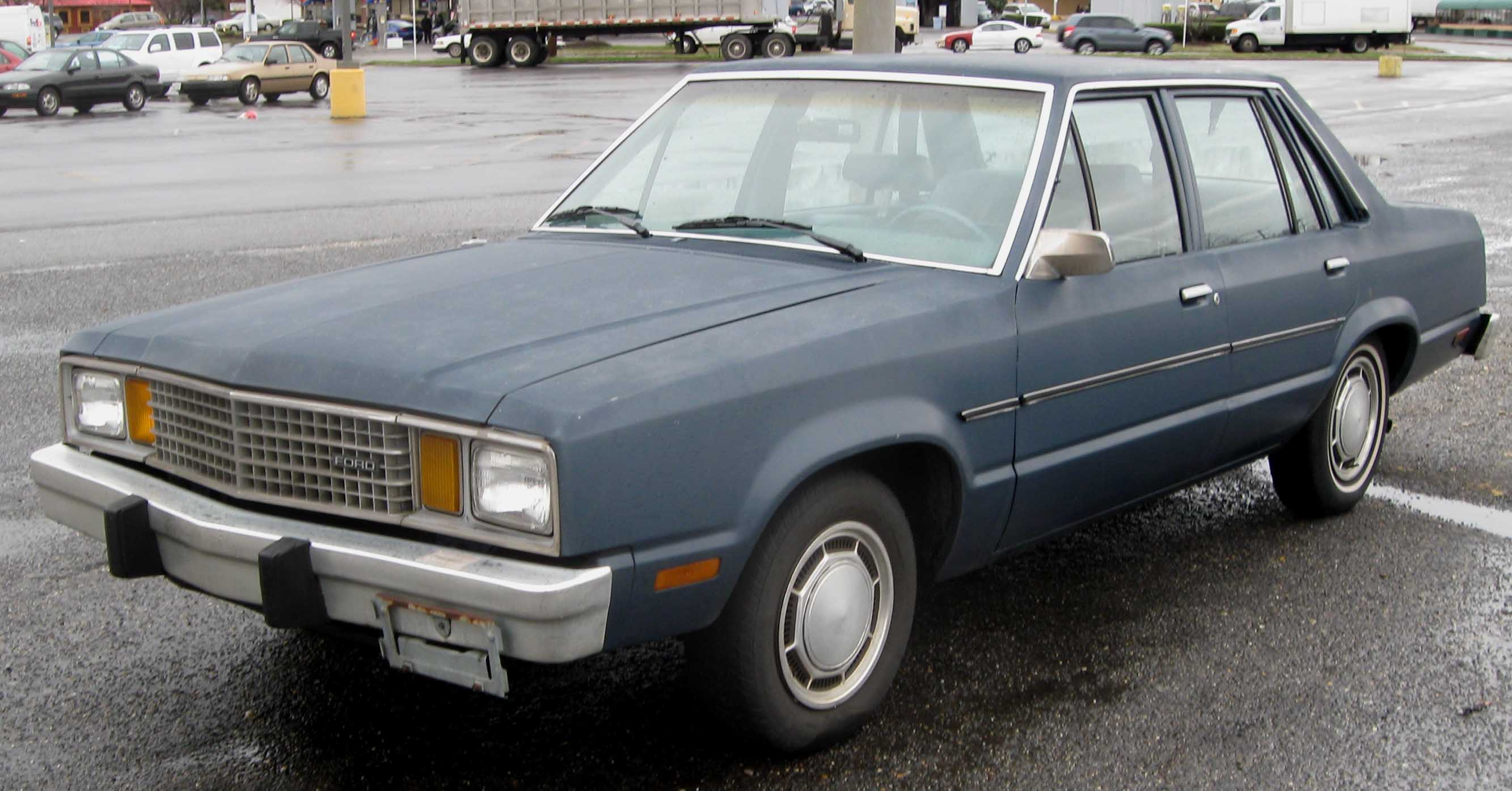 Ford Fairmont photographed in Oxon Hill, Maryland, USA.